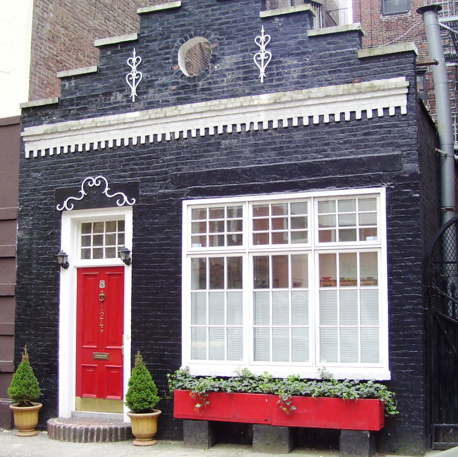 A converted carriage house at 124 East 19th Street in Manhattan, New York City. This block, between Third Avenue and Irving Place, has been called the "Block Beautiful" for the quality of its architecture.